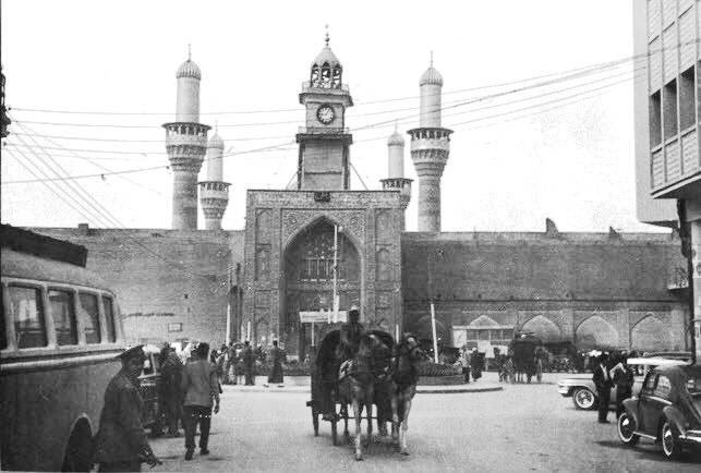 Al-Kadhimiya Mosque - 1932